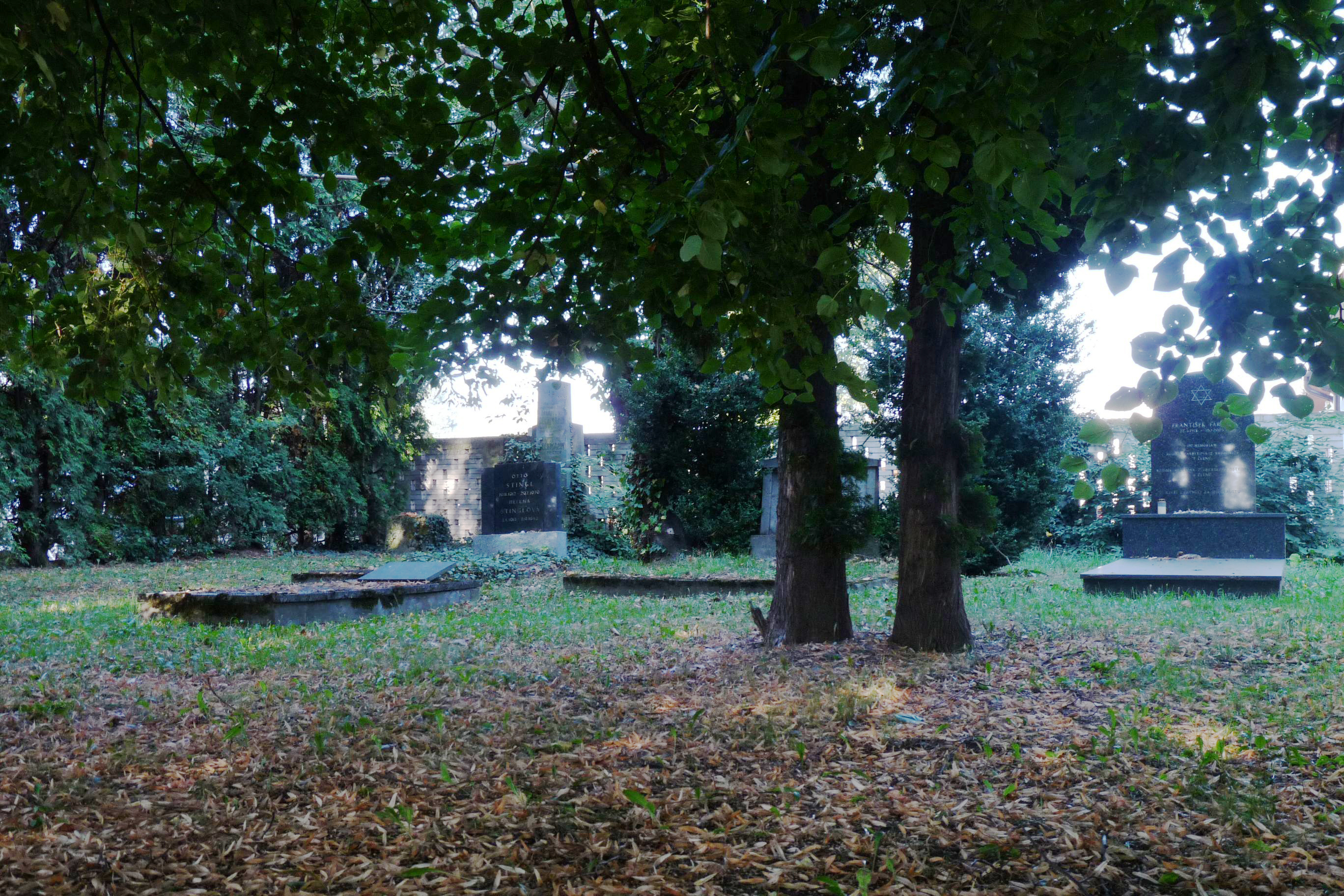 Jewish cemetery in the town of Kroměříž, Zlín Region, Czech Republic. Česky: Židovský hřbitov ve městě Kroměříž, Zlínský kraj.